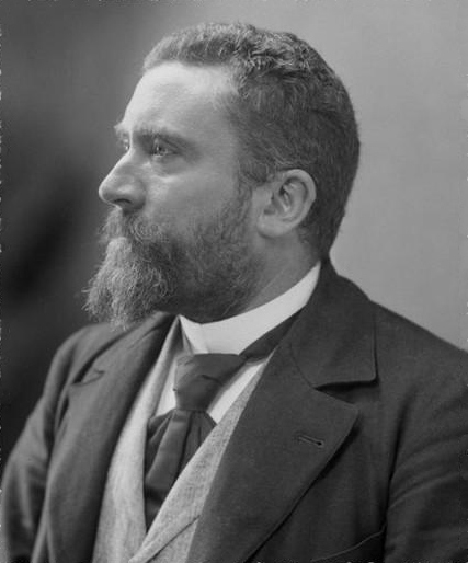 Jean Jaurès, 1898, by Nadar.